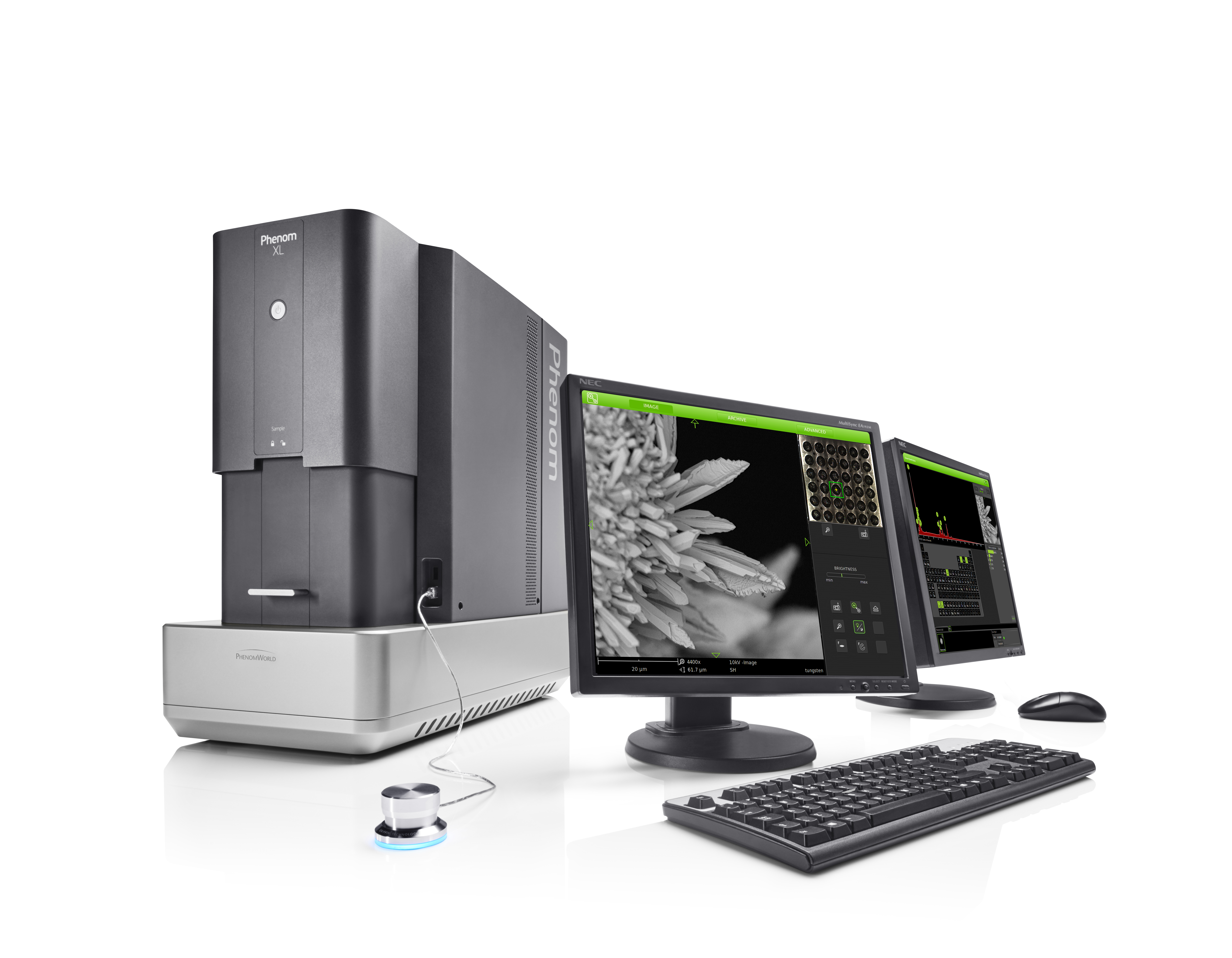 Phenom XL desktop scanning electron microscope